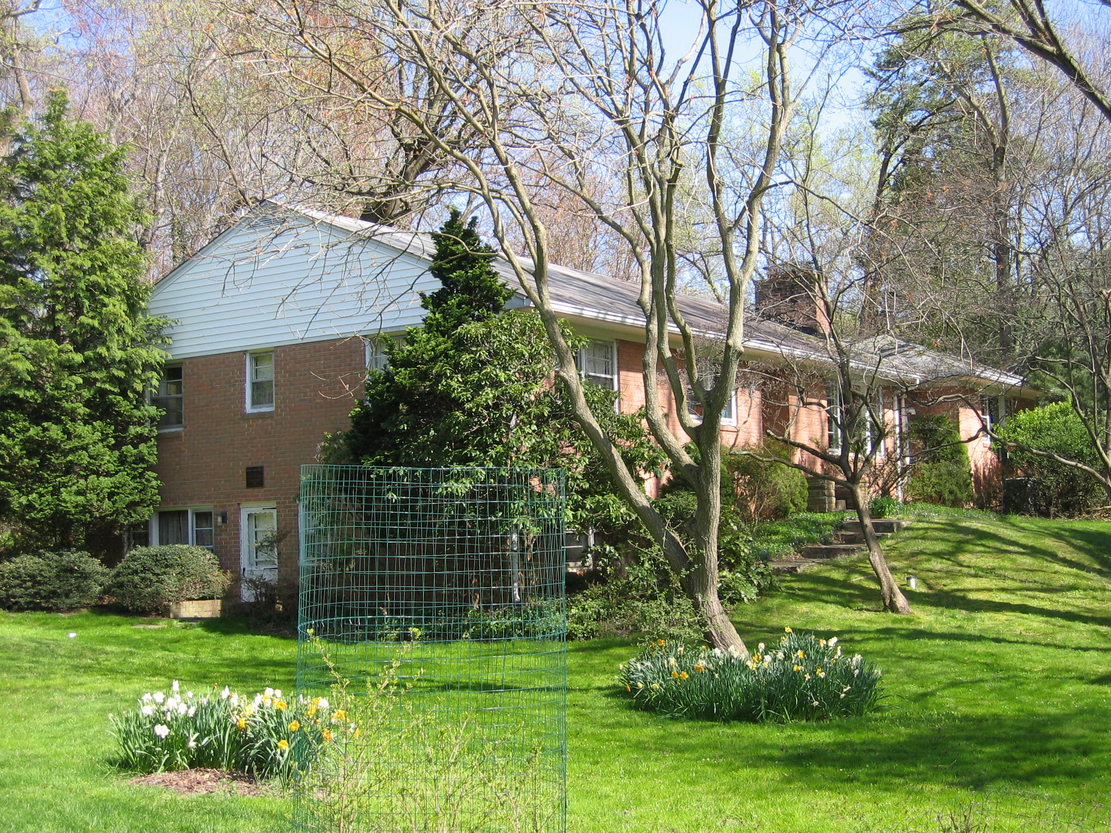 An exterior view facing east of a ranch-style suburban dwelling in Colesville, Maryland built for Rachel Carson in 1956.